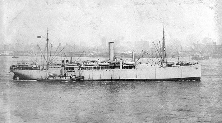 USS Scranton (ID # 3511) In a harbor, circa spring 1919, probably at New York. She appears to be under tow. Photograph from the USS Scranton photo album kept by J.D. Bartar, one of her crew members. U.S. Naval Historical Center Photograph.